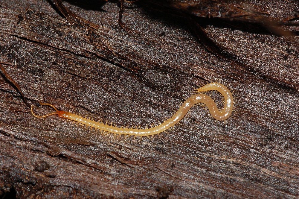 Geophilus spec., Nied, Frankfurt/Main, Germany